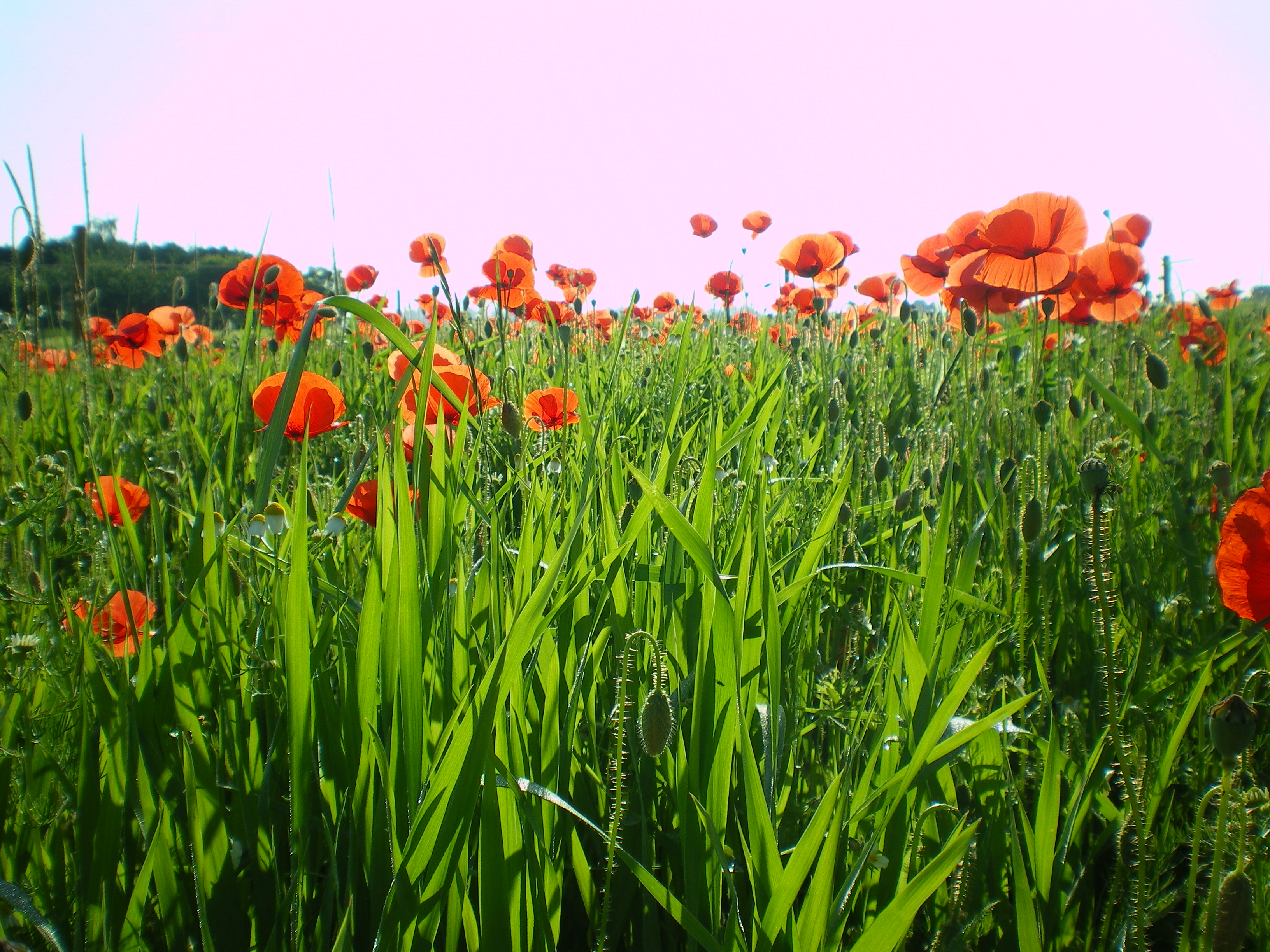 Triticum monococcum